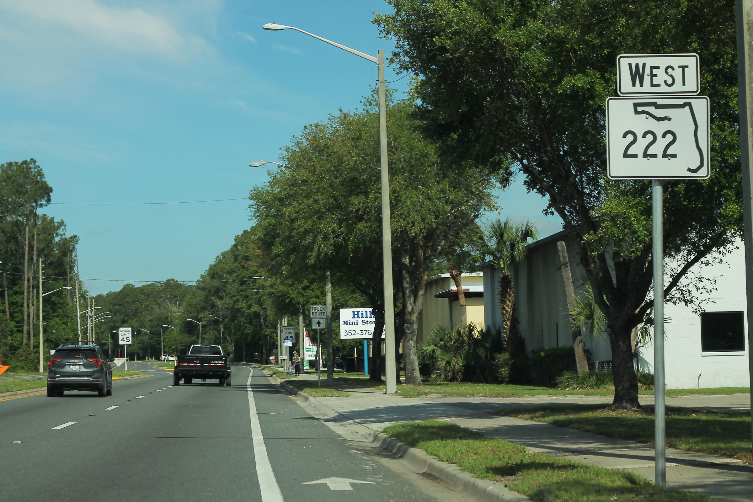 FL222wRoadSign-NearFL24